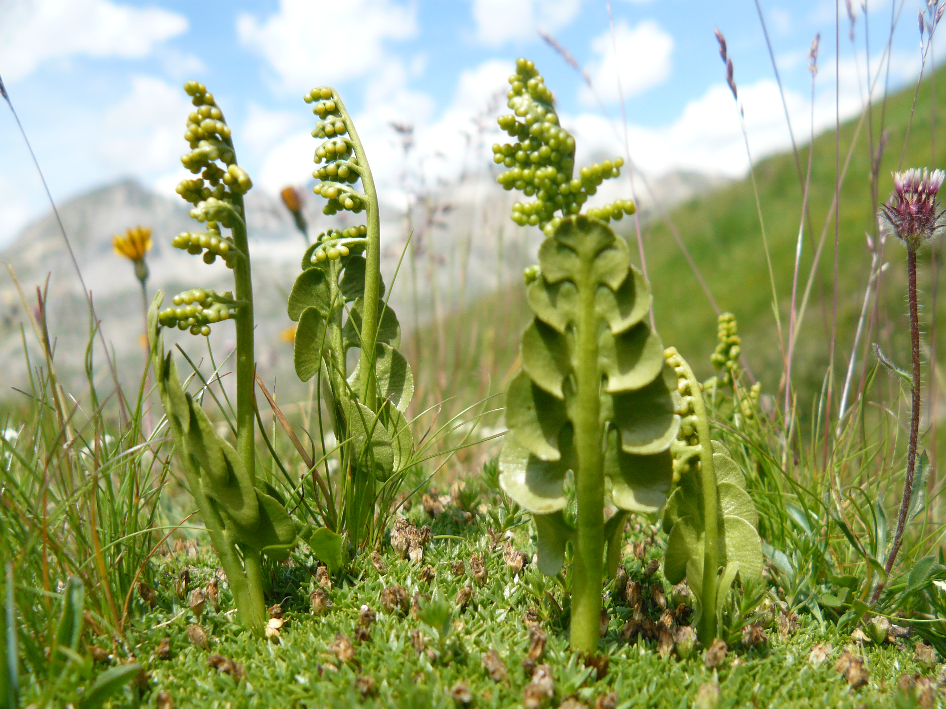 Botrychium lunaria on Minuartia sedoides, Mountain pass of Iseran, Vanoise montains (73), France